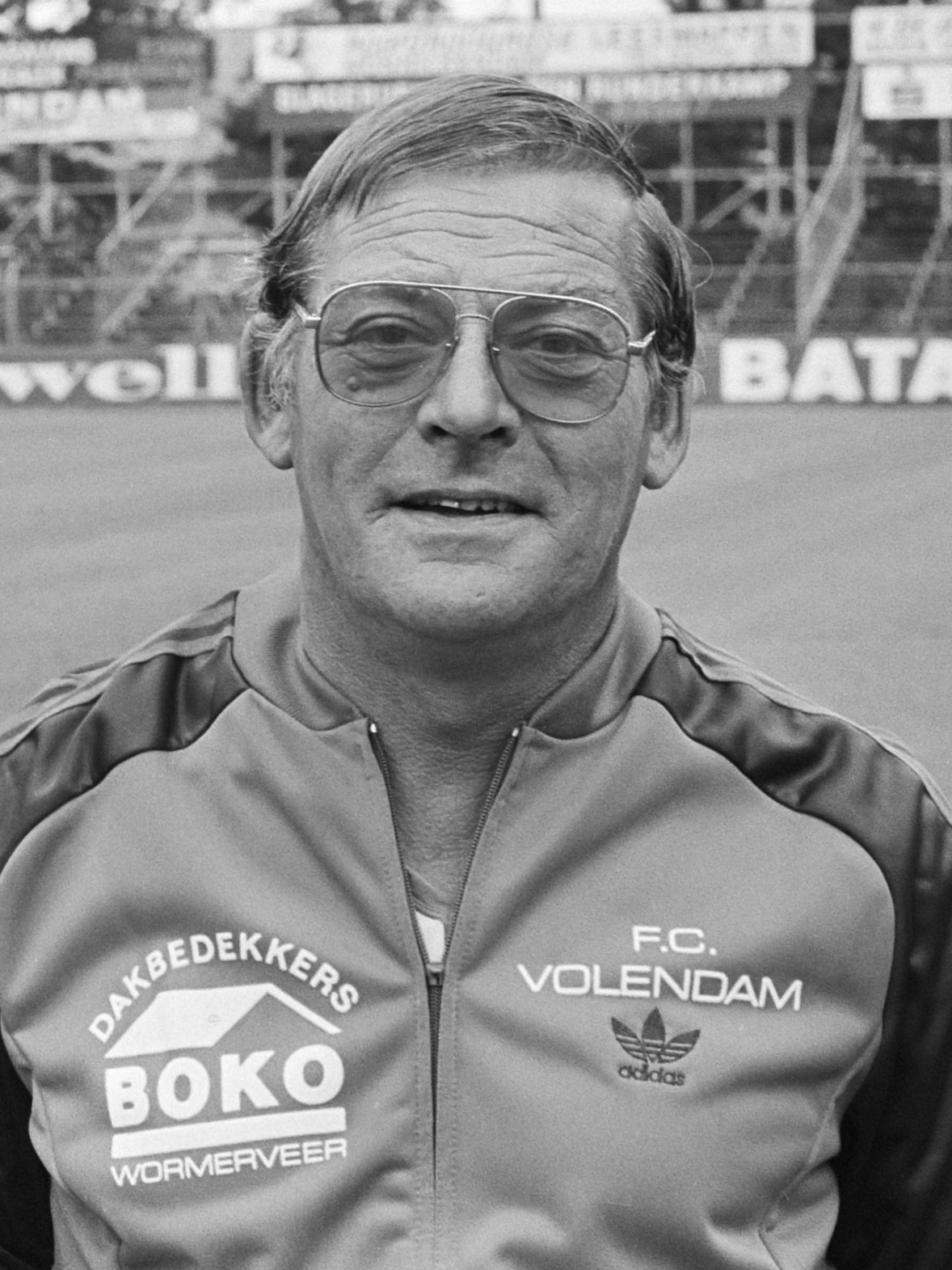 Persbijeenkomst FC Volendam ; Frank Kramer (l) met trainer Dick Maurer 20 juli 1981